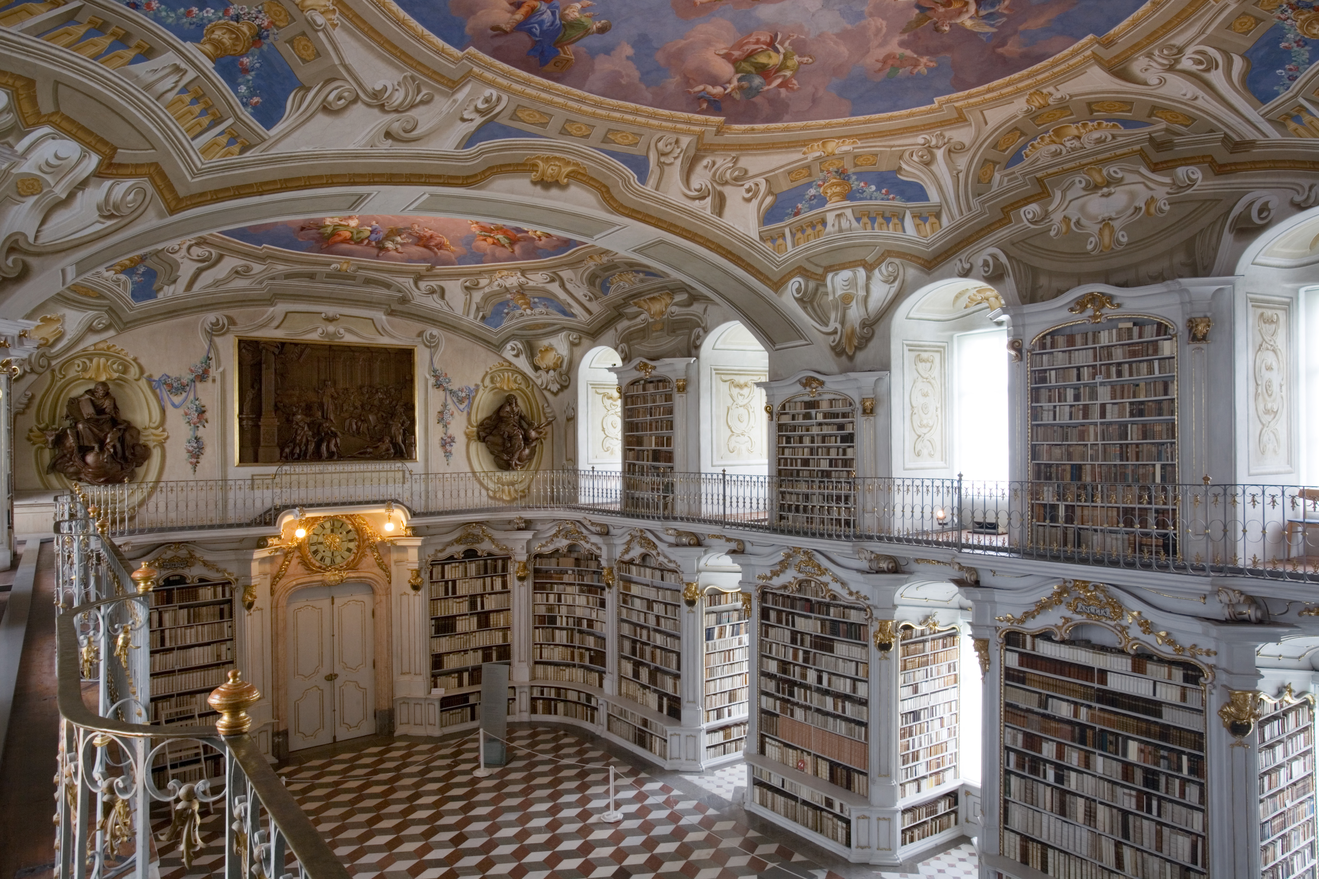 Admont Abbey Library, Austria